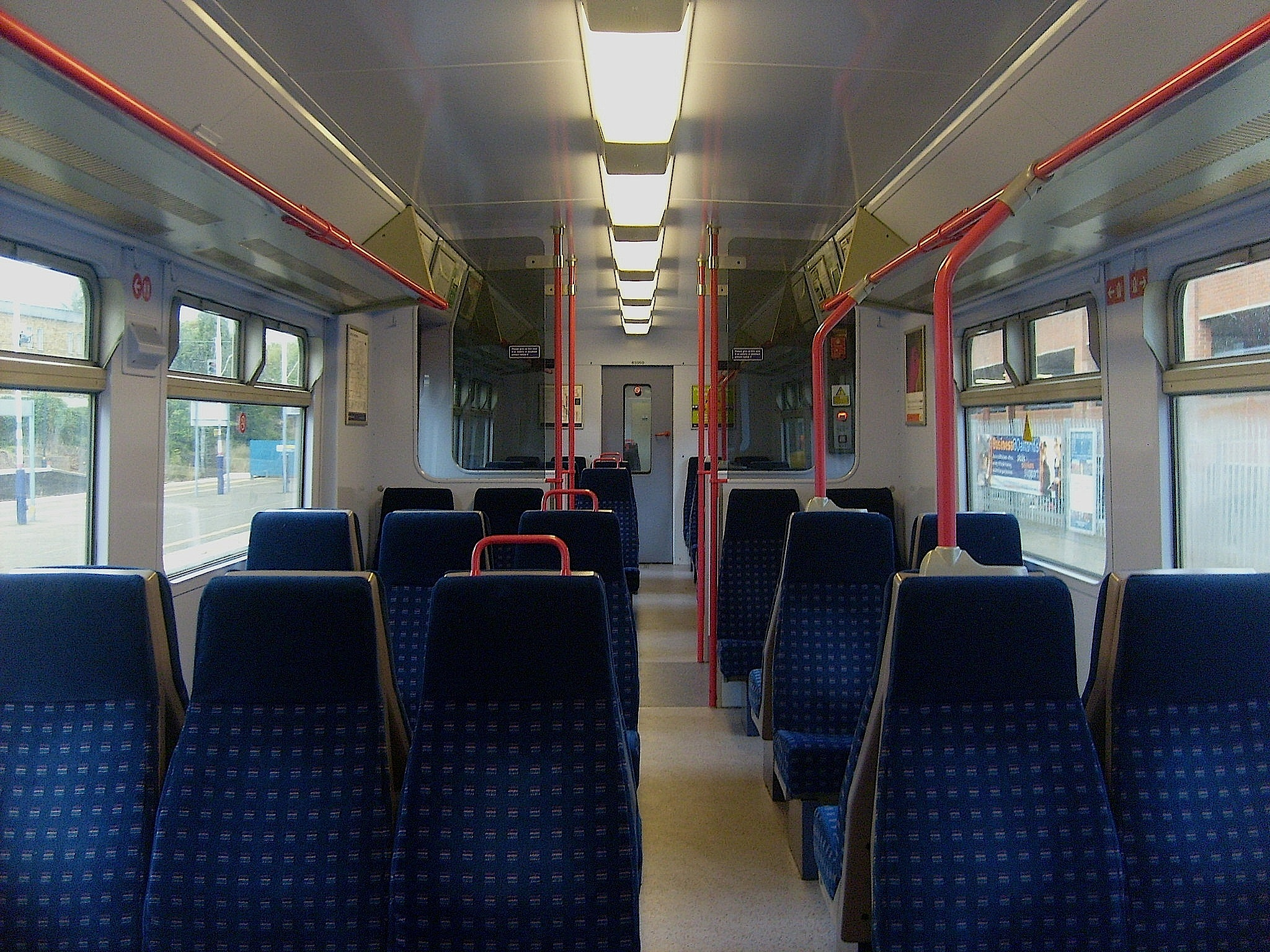 Interior of refreshed Class 319/3 TSO vehicle